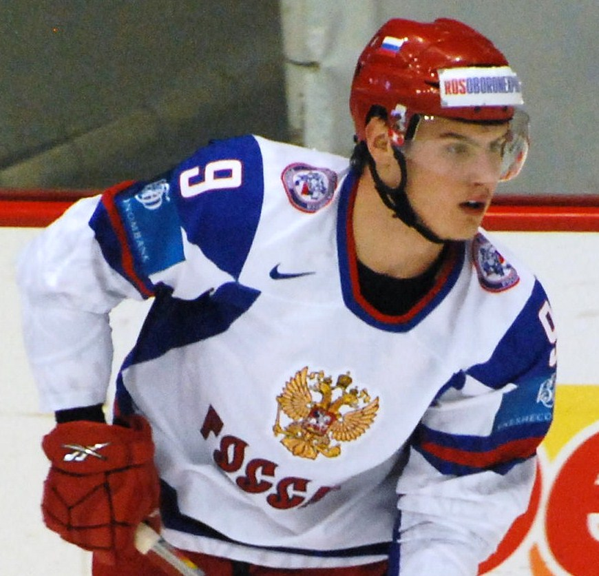 Dmitri Orlov during the 2010 World Junior Championships.